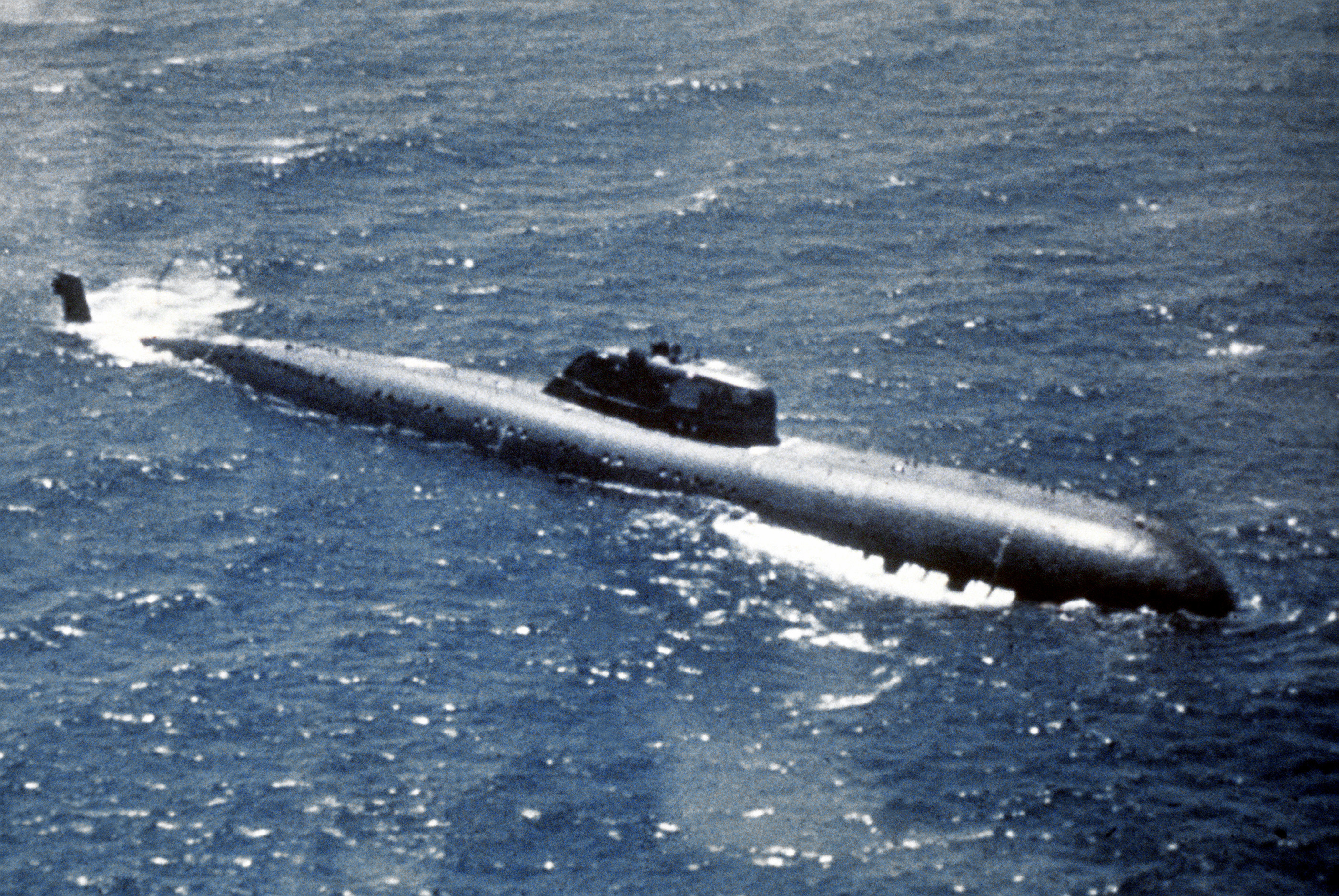 An aerial starboard beam view of a Soviet Charlie I class nuclear-powered submarine underway.